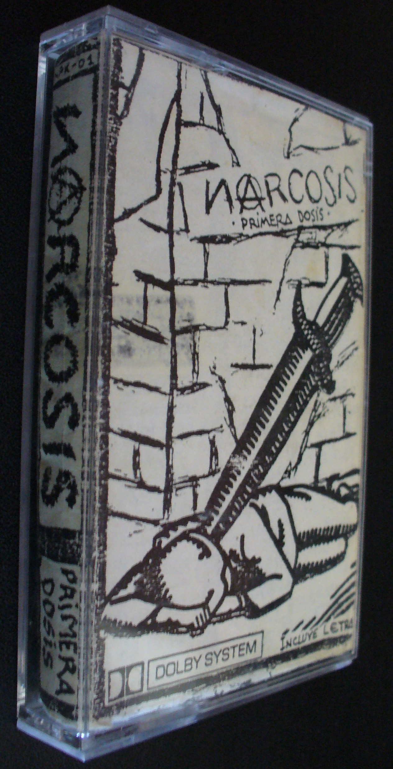 Photo of cover art of 1985 cassette album "Primera Dosis" by Peruvian punk band Narcosis.